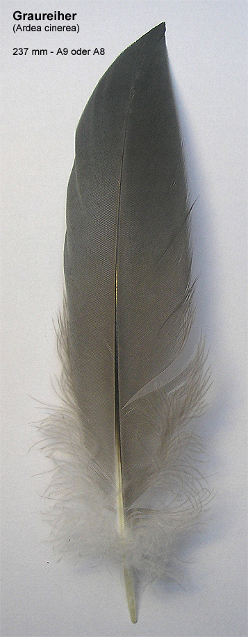 Secondary of a Grey Heron (Ardea cinerea).